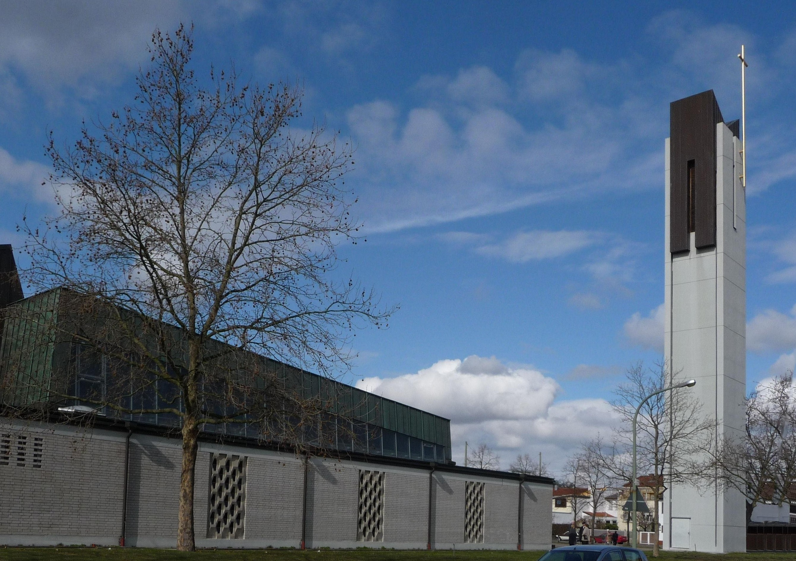 Church in Ludwigshafen, Germany